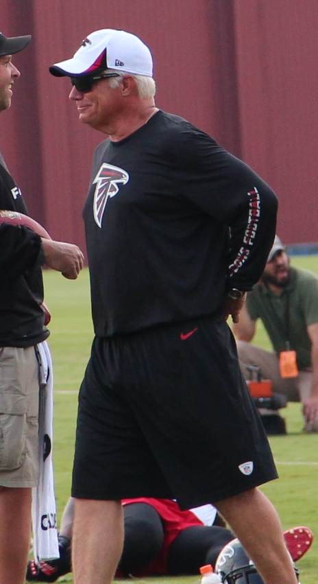 Atlanta Falcons coach Mike Smith, 2013